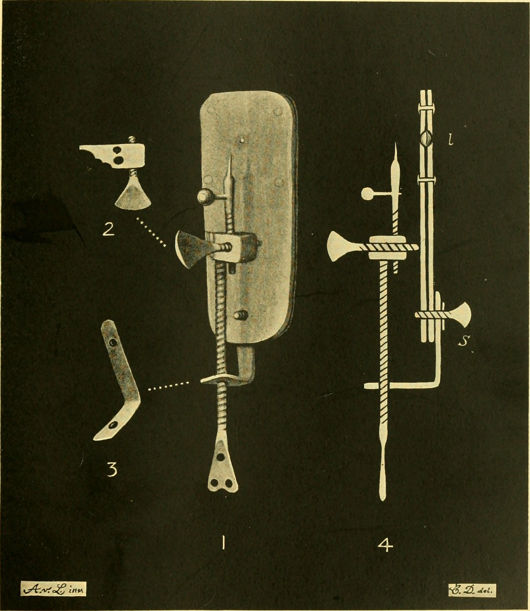 Title: Antony van Leeuwenhoek and his "Little animals"; being some account of the father of protozoology and bacteriology and his multifarious discoveries in these disciplines; Year: 1932 (1930s) Authors: Dobell, Clifford, 1886-1949; Leeuwenhoek, Antoni van, 1632-1723 Subjects: Leeuwenhoek, Antoni van, 1632-1723; Protozoa; Bacteria; Bacteriology; Microbiology; Science Publisher: New York, Harcourt, Brace and company Text Appearing Before Image: PLATE XXXI Text Appearing After Image: LEEUWENHOEK'S MICROSCOPE For explanation see the text. facing p. 328